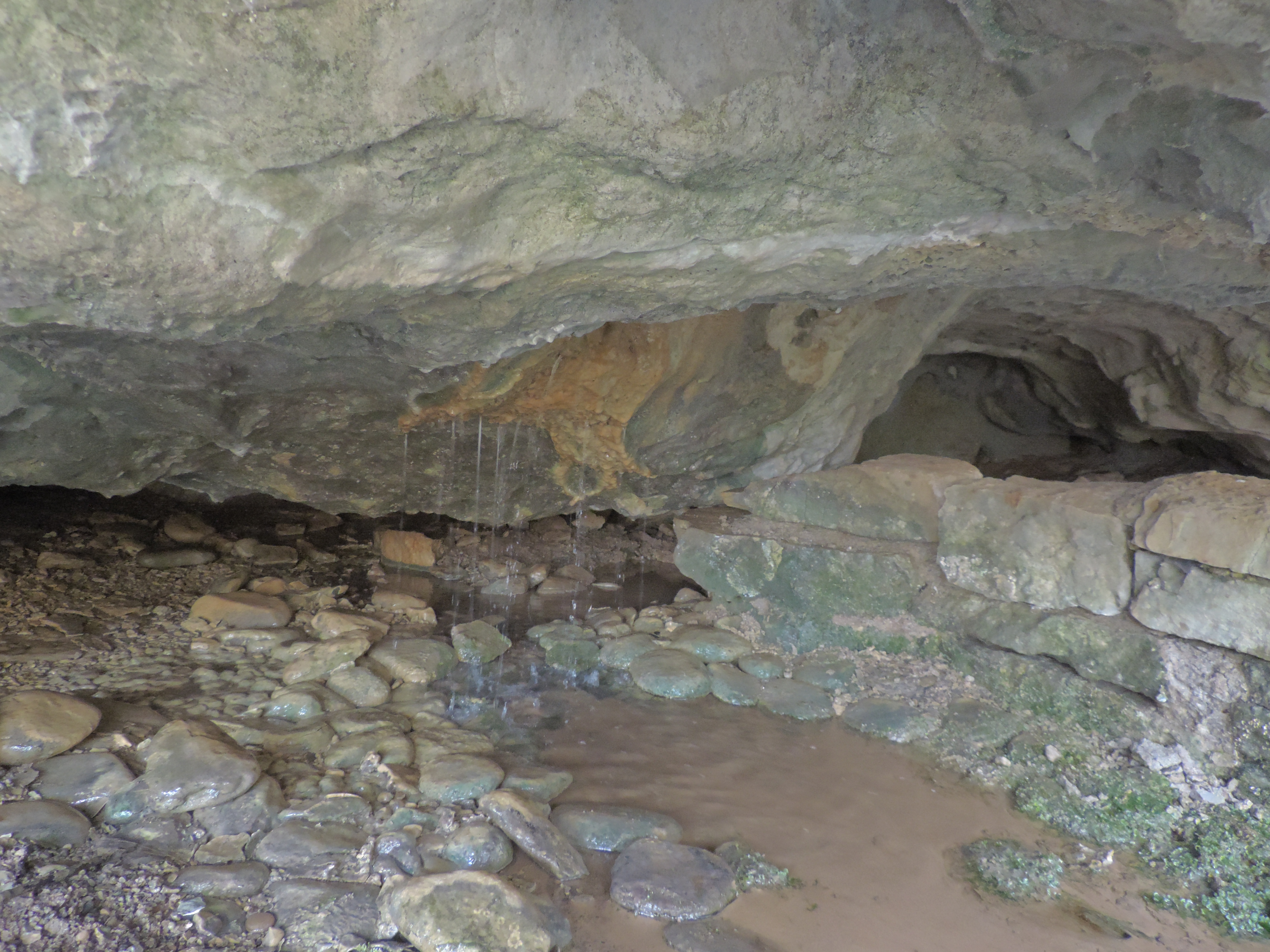 Mineral spring near village Balyuvitsa, Berkovitsa Municipality, Montana Province, Bulgaria.